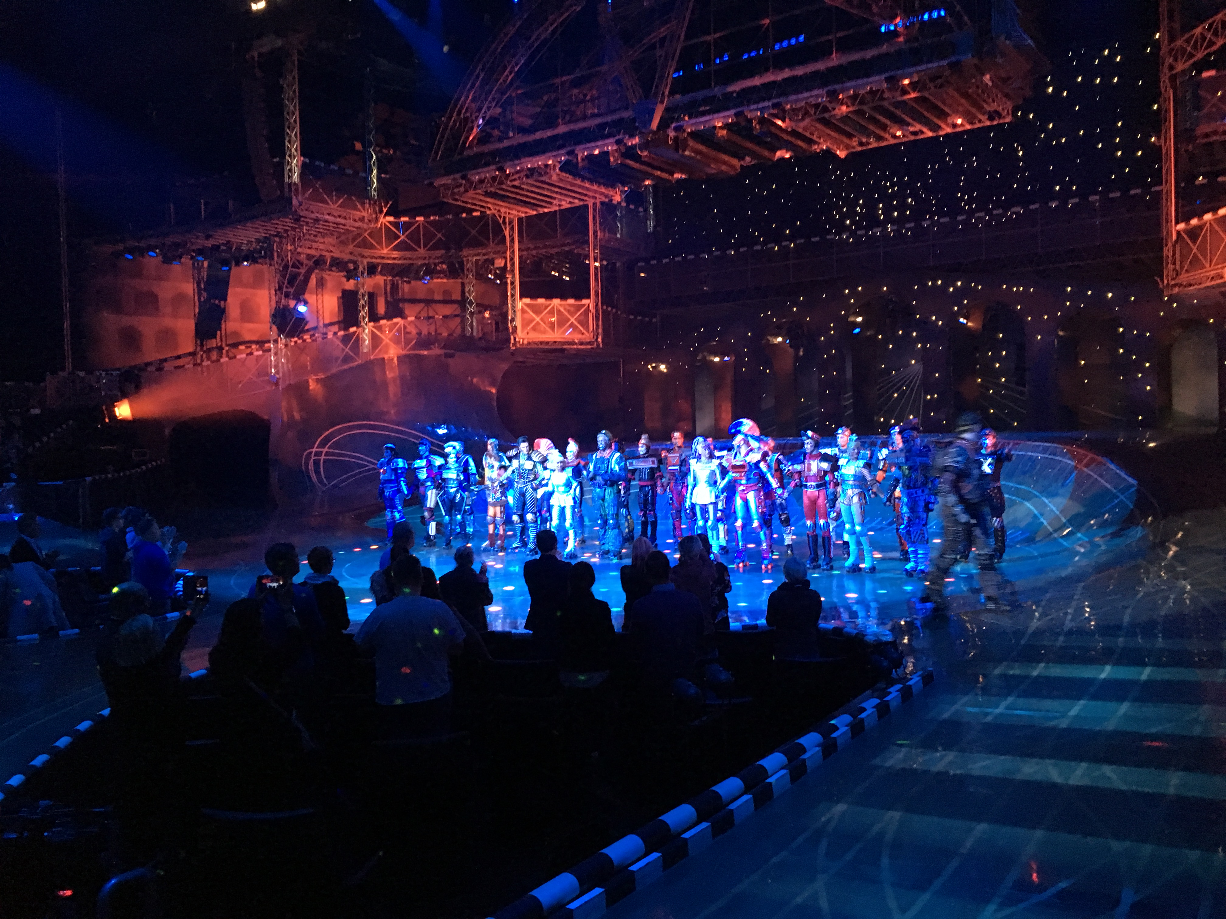 Musical Starlight Express in Starlight Express Theater, Bochum, Germany (March 2018) – 01